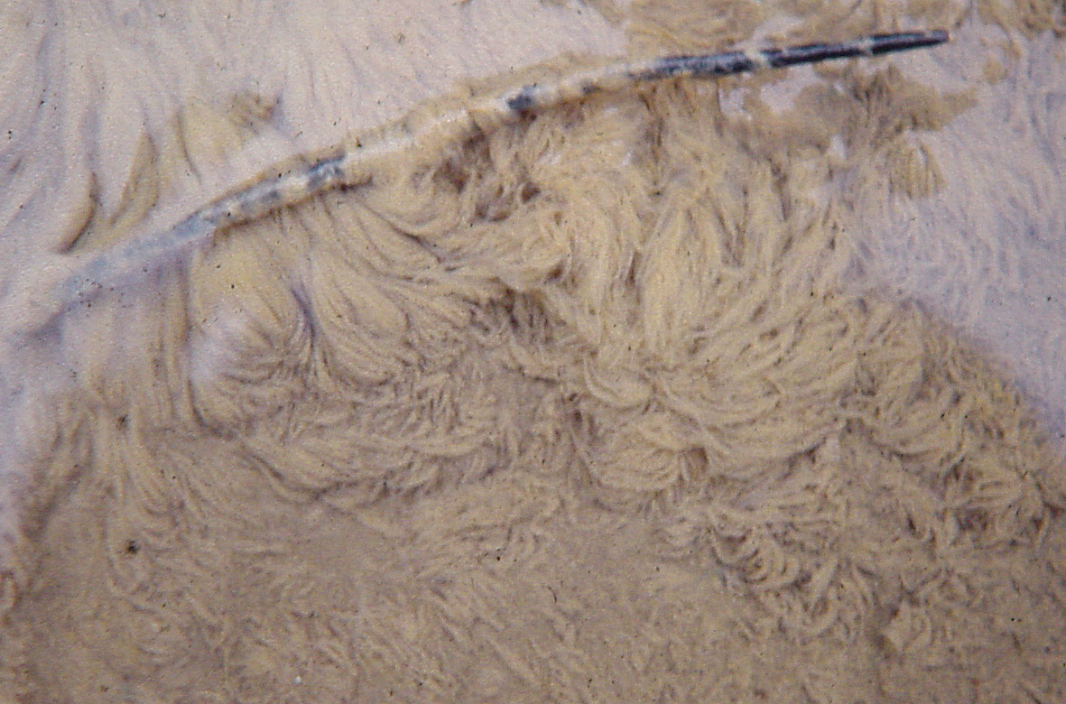 Bacterial carpet (mainly composed of filamentous bacteria Sphaerotilus natans) lining (in 1990) the bottom of the river Aa, killing and stifling most part of organisms (except larvae of chironomids, tubifex colonies and a small leech species particularly resistants. Eutrophication was maximal at Blendecques after the outfall of the 4th Epuration stationery of the valley in the center of the town, and floodplain). To give a scale : the branch is about 1cm in diameter